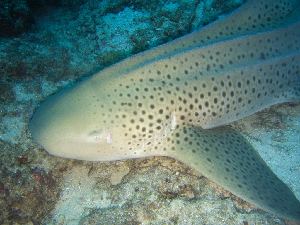 Zebra shark (Stegostoma fasciatum) off Mozambique